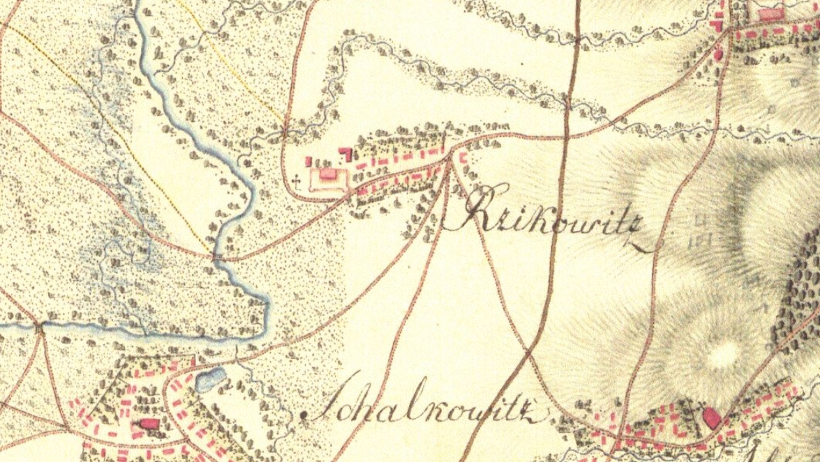 Říkovice - cropped map from the First Military Mapping Survey of Austria Empire, 1:28 800, 1760s